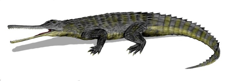 Rutiodon carolinensis, a phytosaur from the Late Triassic of North America, pencil drawing, digital coloring